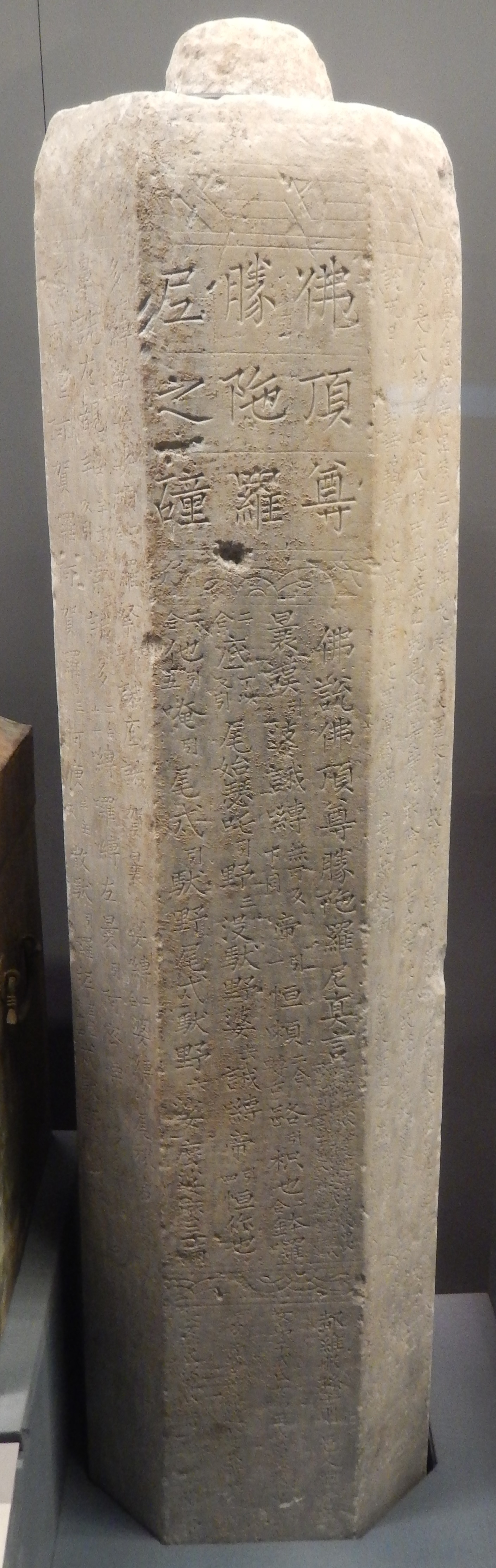 Stone octagonal pillar carved with the "Dharani of the Victorious Buddha-Crown" (佛頂尊勝陁羅尼之䃥). From the Temple of Azure Clouds (Biyun Si), Haidian District, Beijing. Ming dynasty (1368–1644). Held at the Capital Museum, Beijing.中文（中国大陆）: 明代佛頂尊勝陀羅尼石經幢，原立於海澱區碧雲寺内。北京首都博物馆藏。